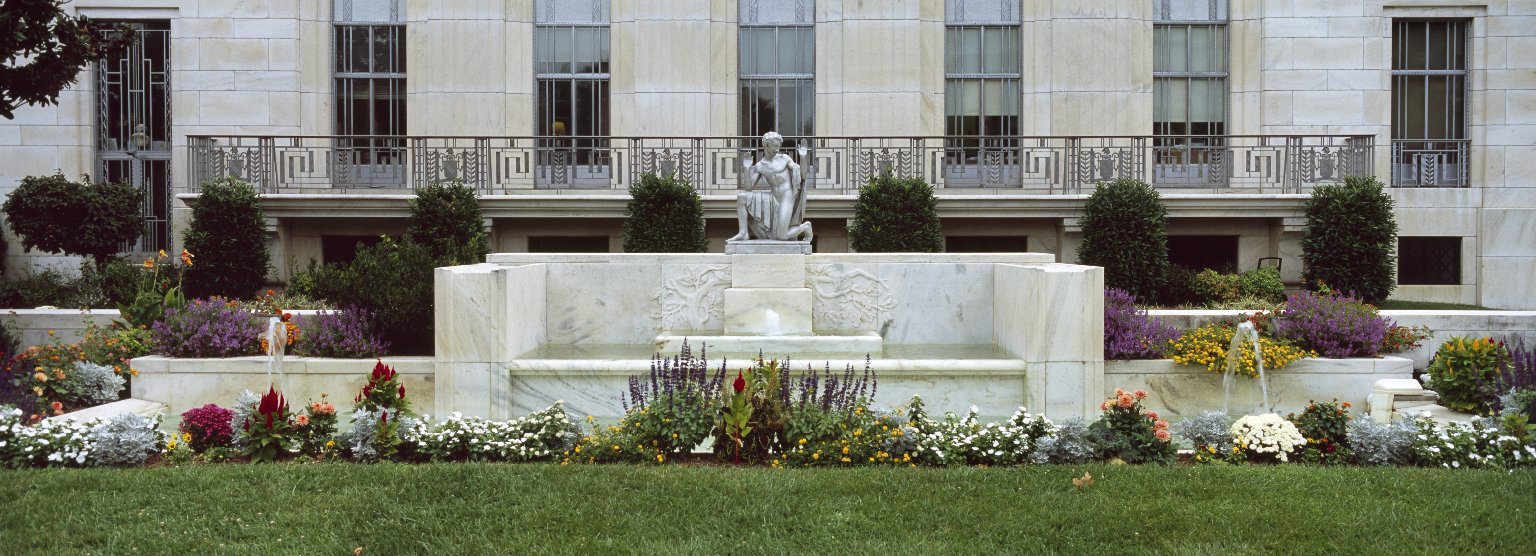 The statue of Puck and the west front of the Folger Shakespeare Library